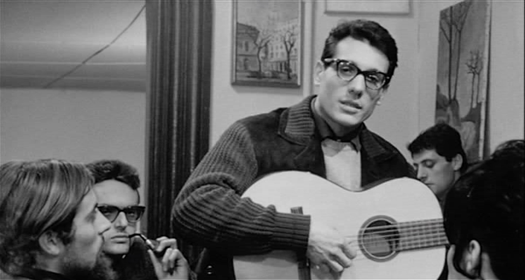 screenshot from the film La Vita Agra (1964)